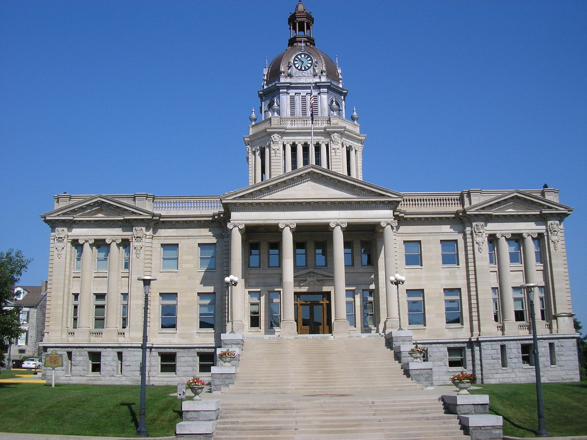 Front of the Bourbon County Courthouse, located on Courthouse Square in Paris, Kentucky, United States. Built in 1902, the courthouse is listed on the National Register of Historic Places.